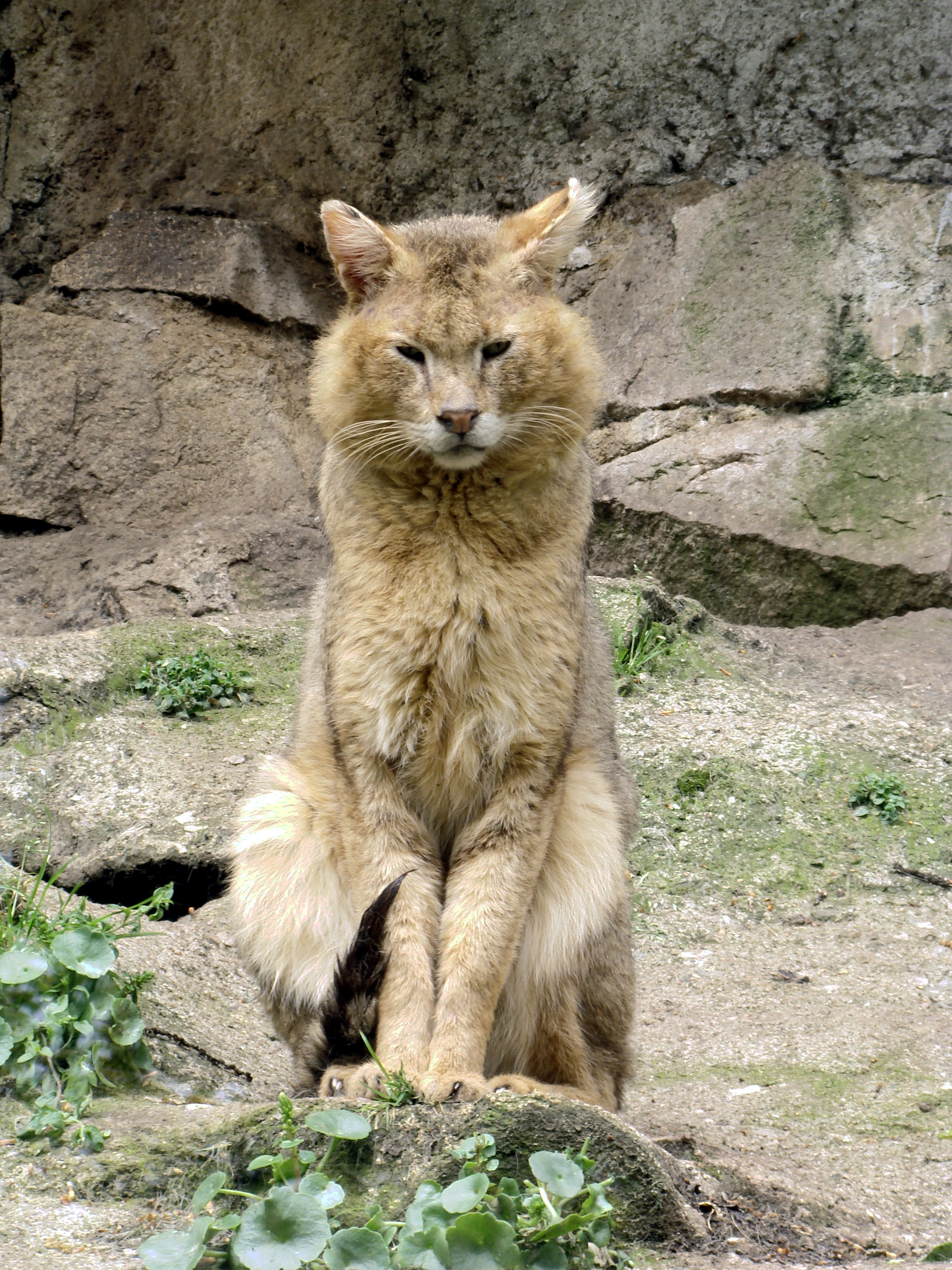 Jungle Cat (Felis chaus) at Pont-Scorff Zoo.